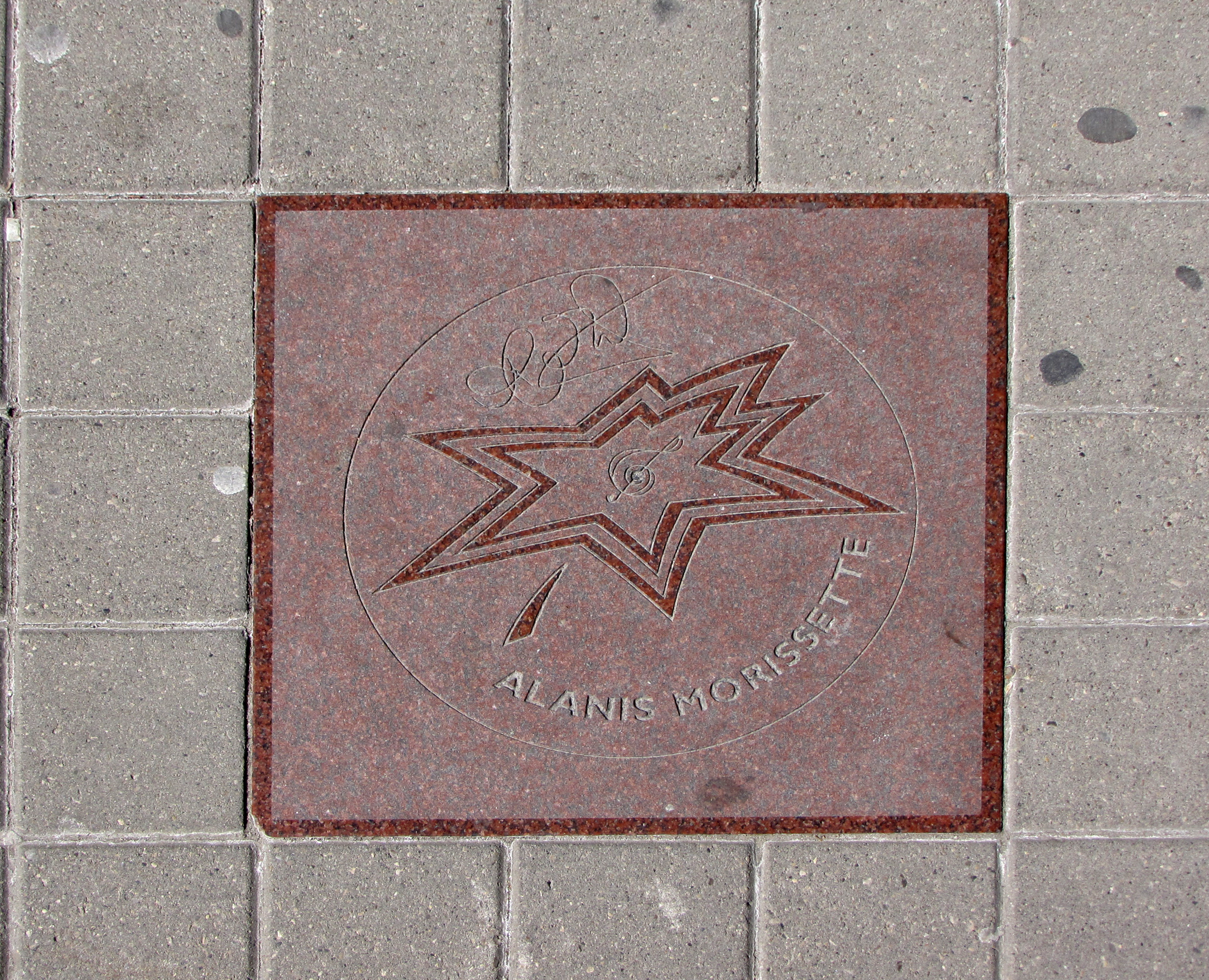 Alanis Morissette's star on Canada's Walk of Fame. Image has been corrected for keystone effect and color